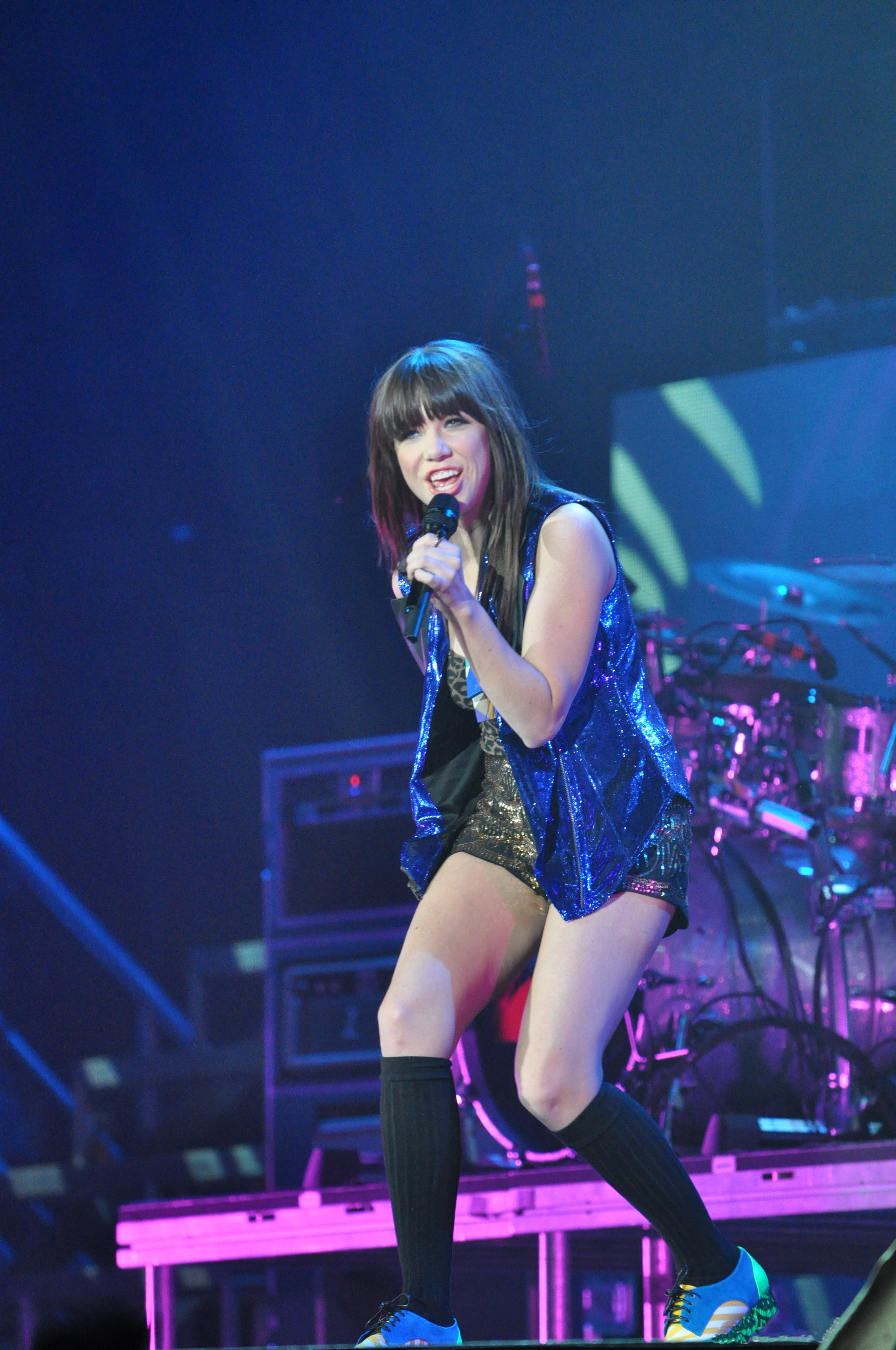 Carly Rae Jepson-DSC_0207-10.20.12